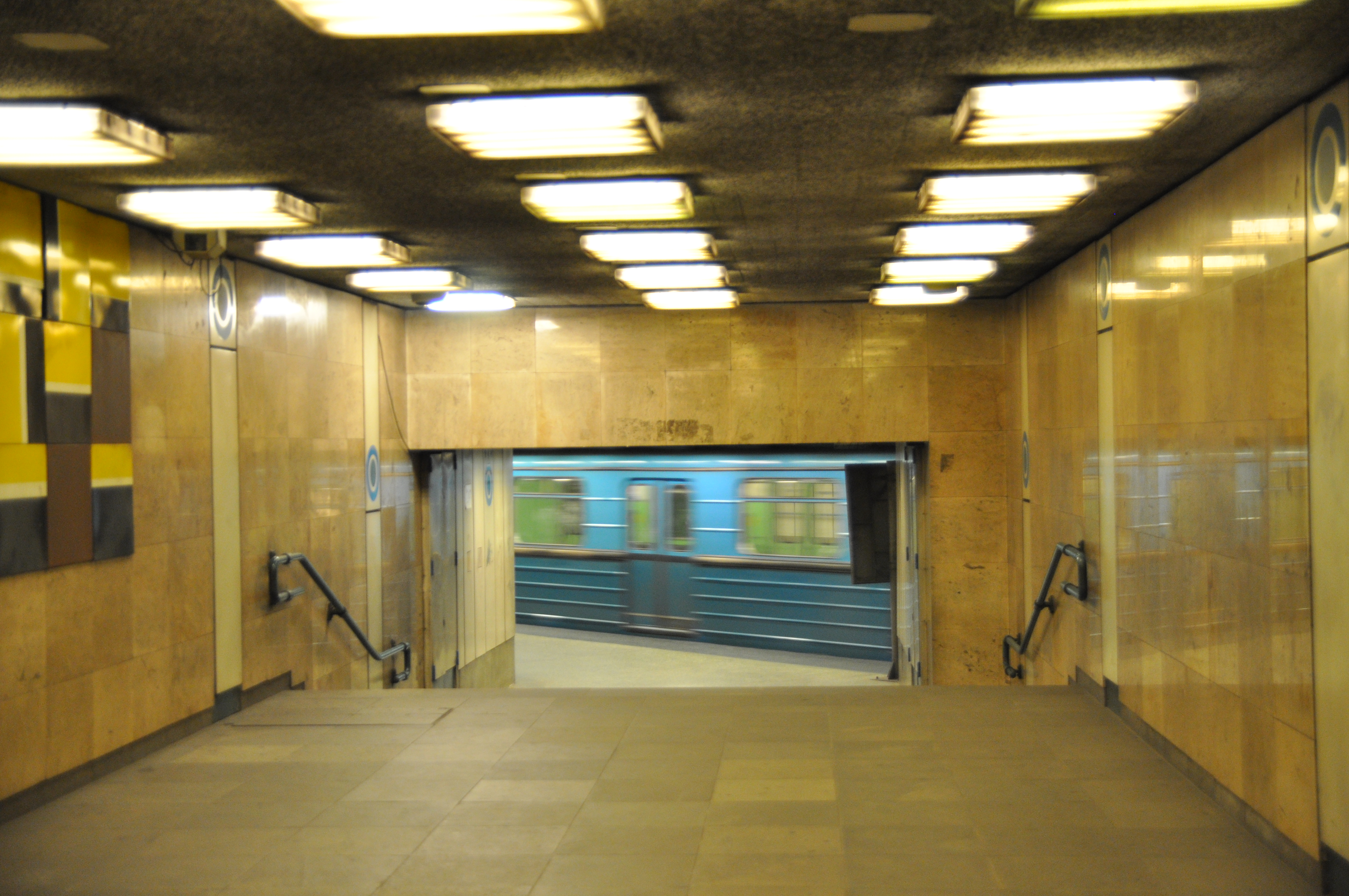 Budapest, metró 3, Forgách utca